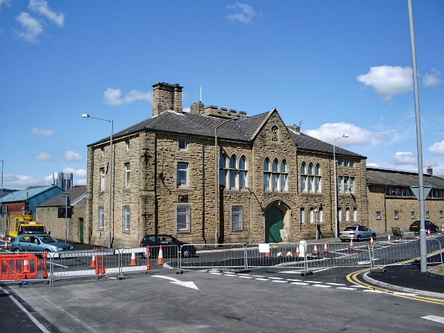 Army Depot on Canterbury Street